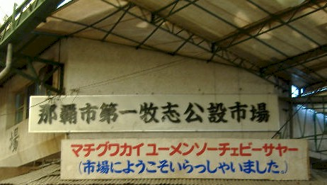 Makishi First Public Market